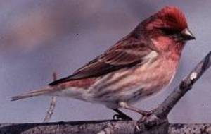 A male Purple Finch